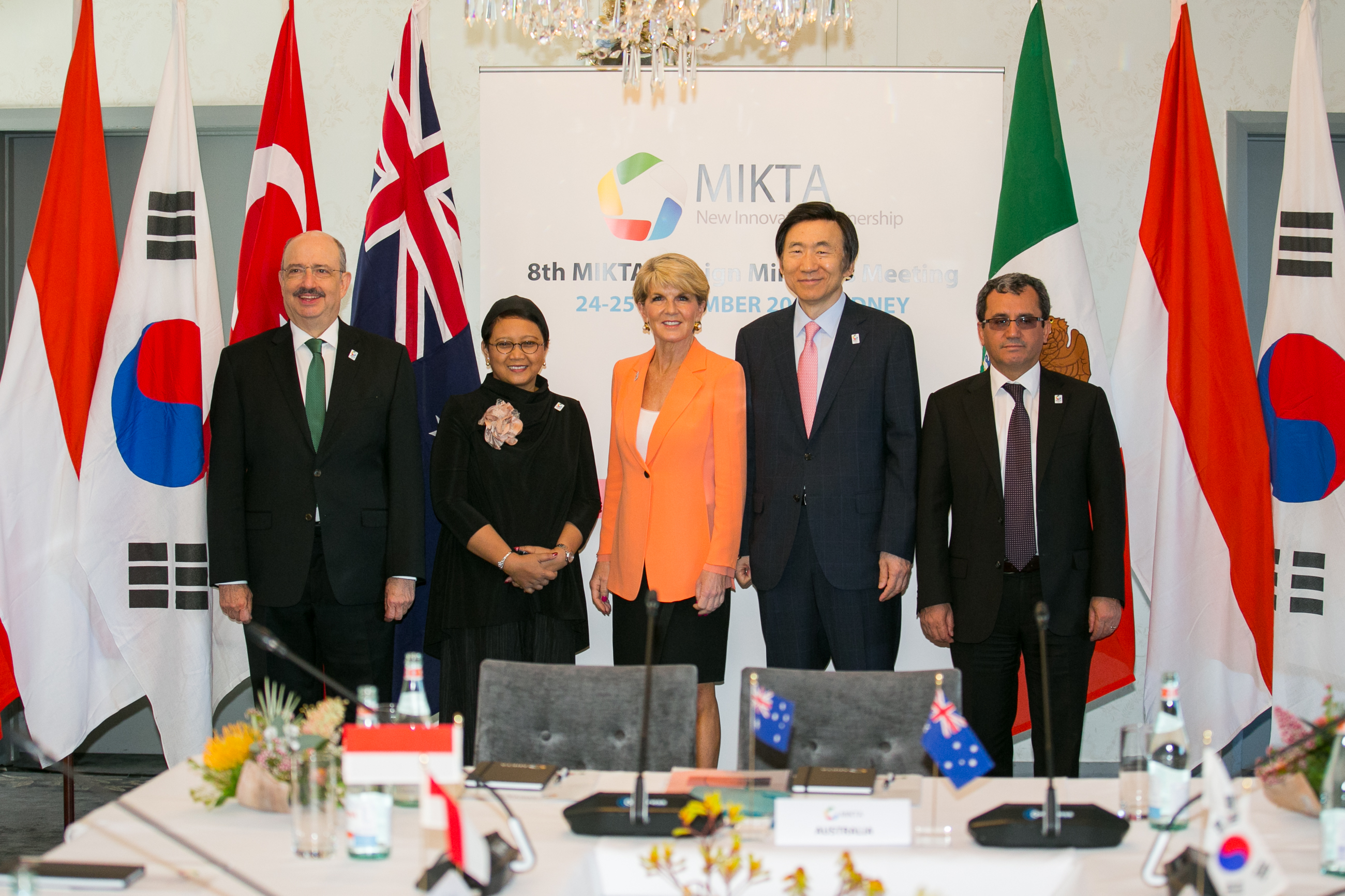 Australia’s Foreign Minister Julie Bishop (centre) with her MIKTA counterparts, Mr Carlos de Icaza, mexico, Ms Retno Marsudi, Indonesia, Mr Yun Byung-se, Republic of Korea, Mr Ahmet Yildiz, Turkey.